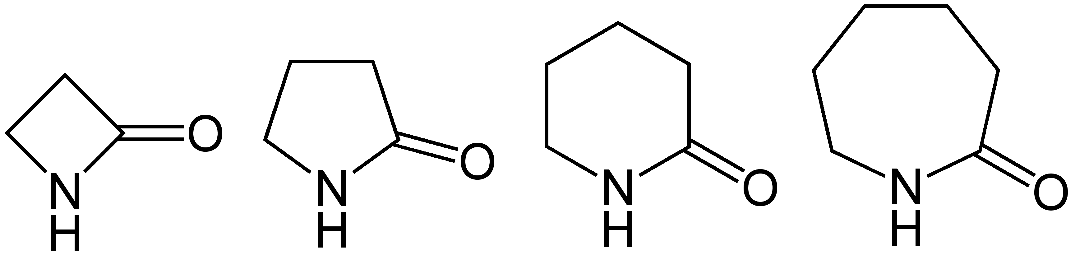 Lactams_General_Formulae